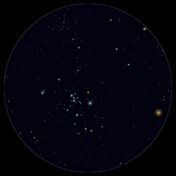 M47